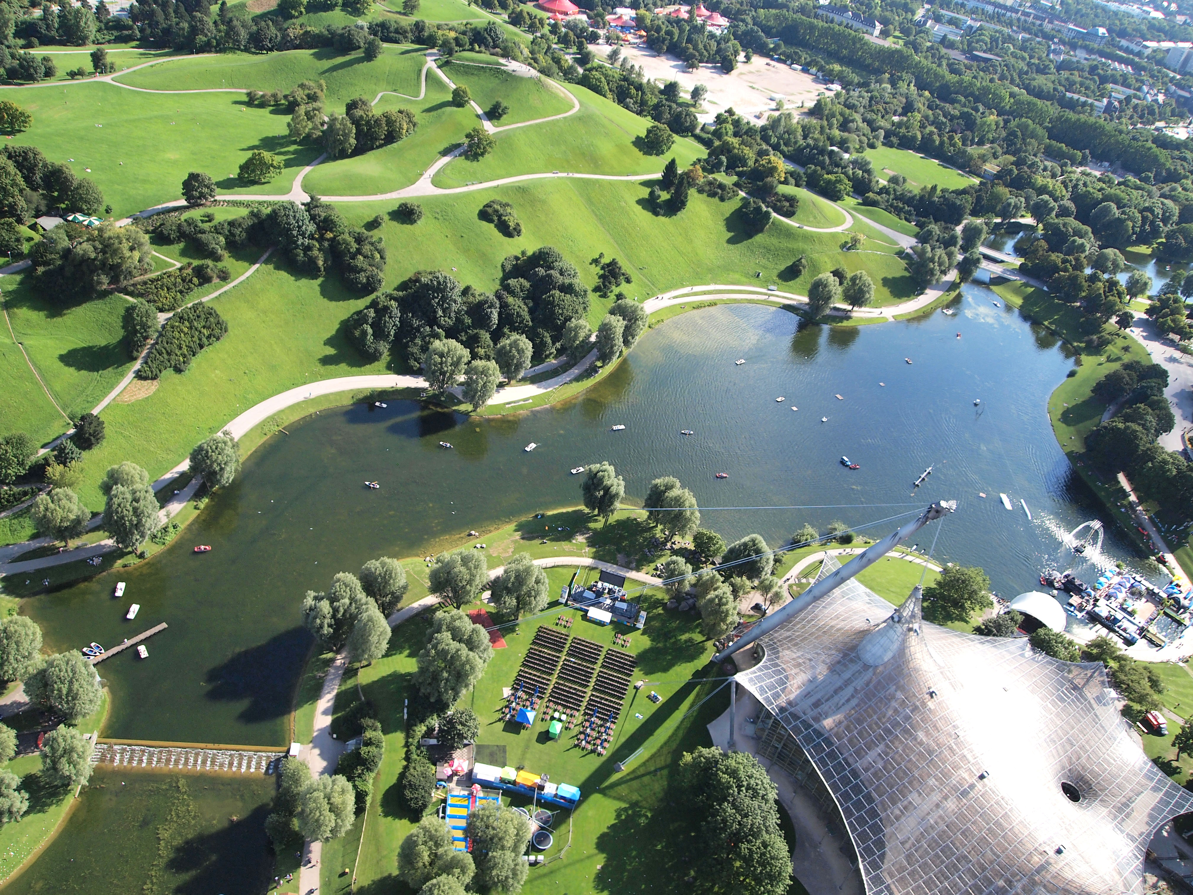 Olympiasee in Munich.This photograph was taken with an Olympus E-PL1